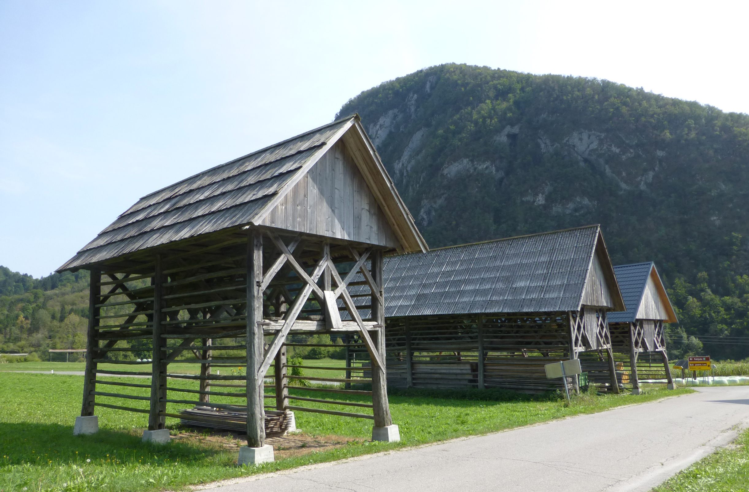 Hayracks in STUDOR, east of Bohinj lake.